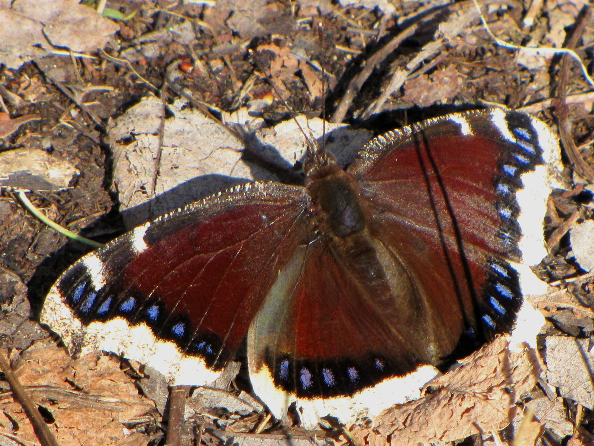 Mourning Cloak (Nymphalis antiopa), Mer Bleue Conservation Area, Ottawa, Ontario, Canada